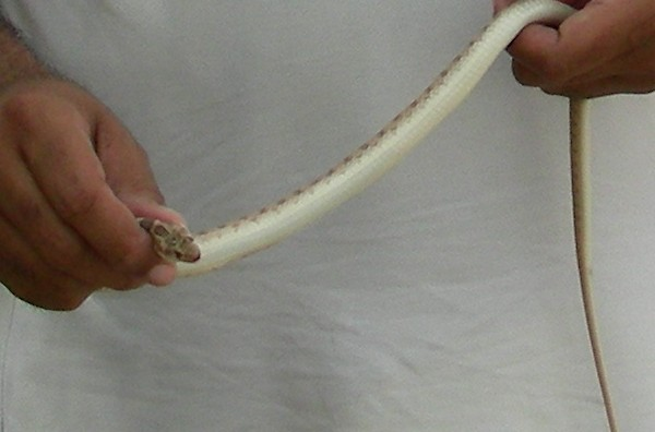 Glossy-bellied Racer, Coluber ventromaculatus, Family Colubridae, Serpentes This snake has been photographed in Pokaran, district Jaisalmer, Rajasthan, India by AshLin on 06 Jun 2006. This image shows a closeup of the belly of the Glossy-bellied Racer. Own work. AshLin 18:25, 30 July 2006 (UTC)